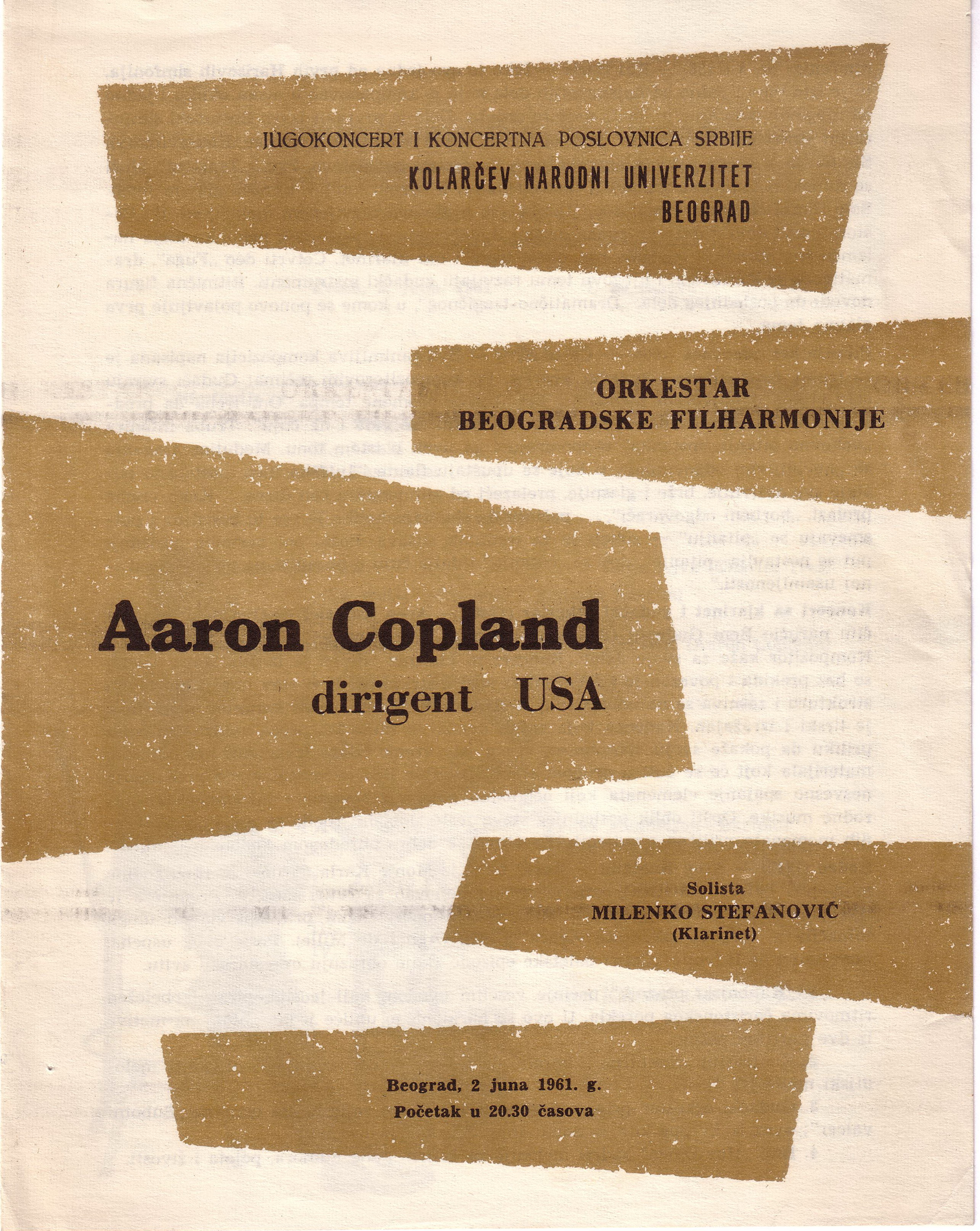 Aaron Copland's concert| in Belgrade, Yugoslavia, held on June 2, 1961, with soloist Milenko Stefanovic and Belgrade Philharmonic Orchestra.